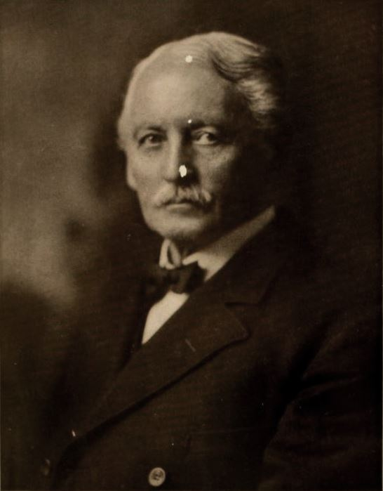 Captioned as "Professor Carlos Troyer," on page 158 of the May 1909 Camera Craft.